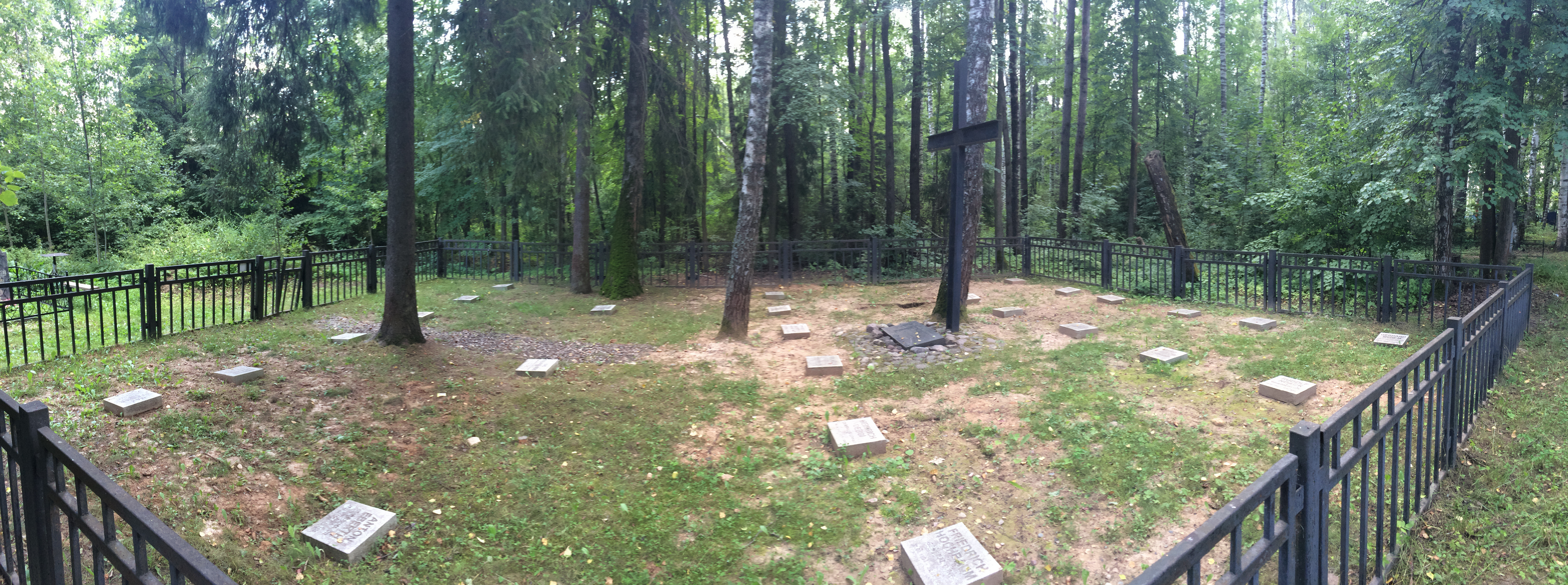 Cherntsy Memorial